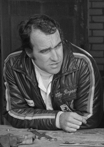 Clay Reggazoni at the Circuit de Zandvoort on 18 June 1971